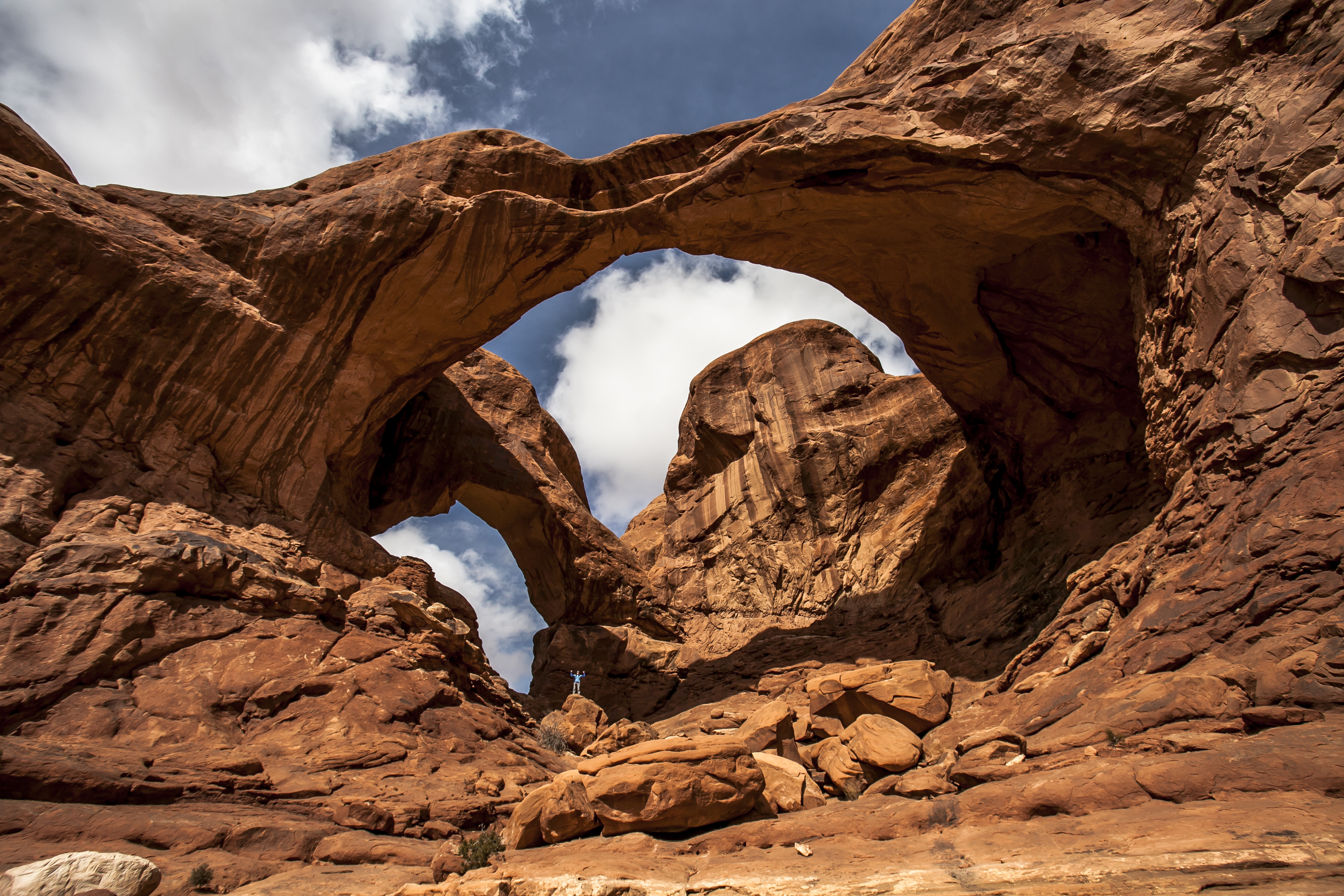 (NPS Photo by Jacob W. Frank)